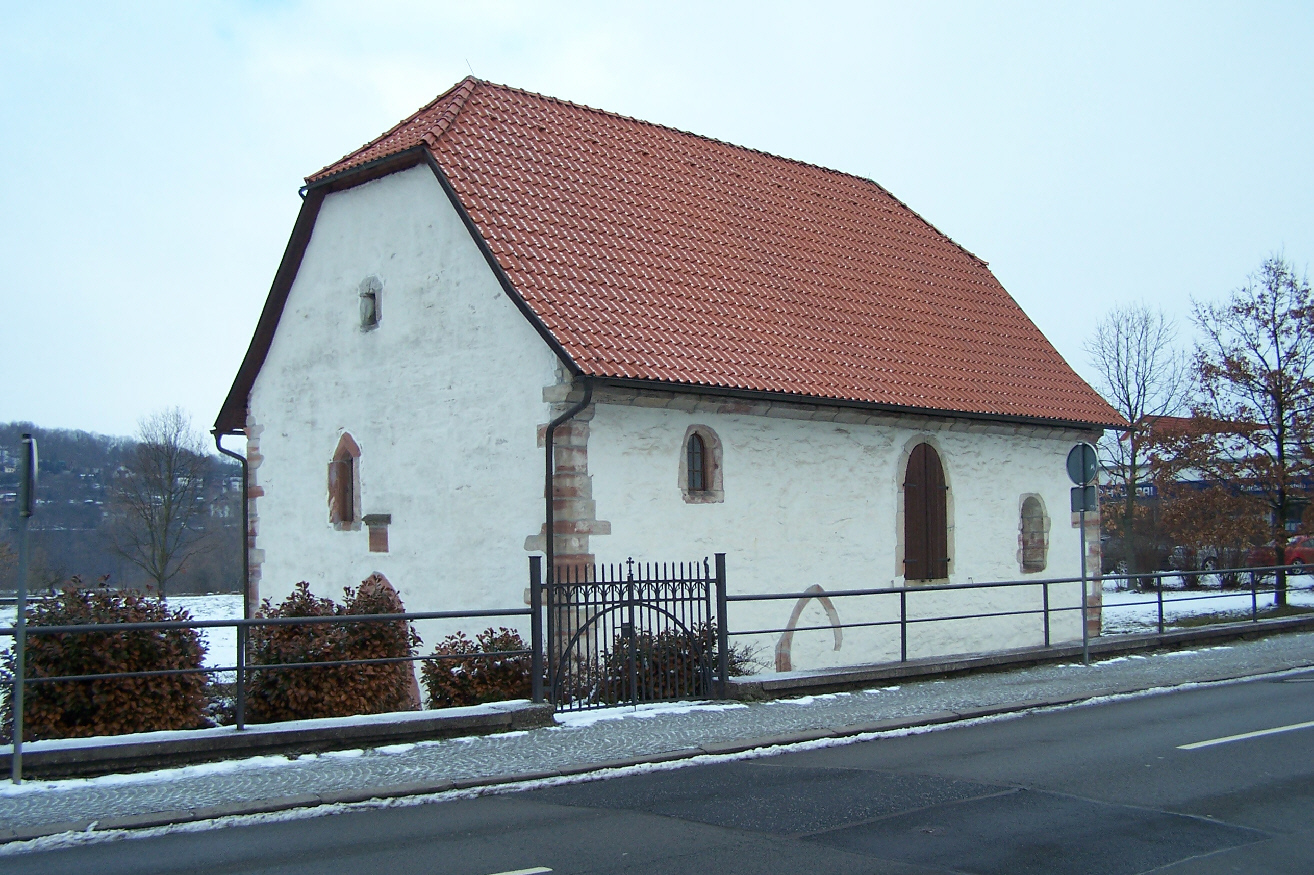 The church ST.Wendel in Bad Salzungen, August-Bebel-Straße.